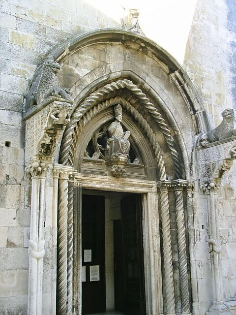 The town of Korčula at the island of the same name in Croatia